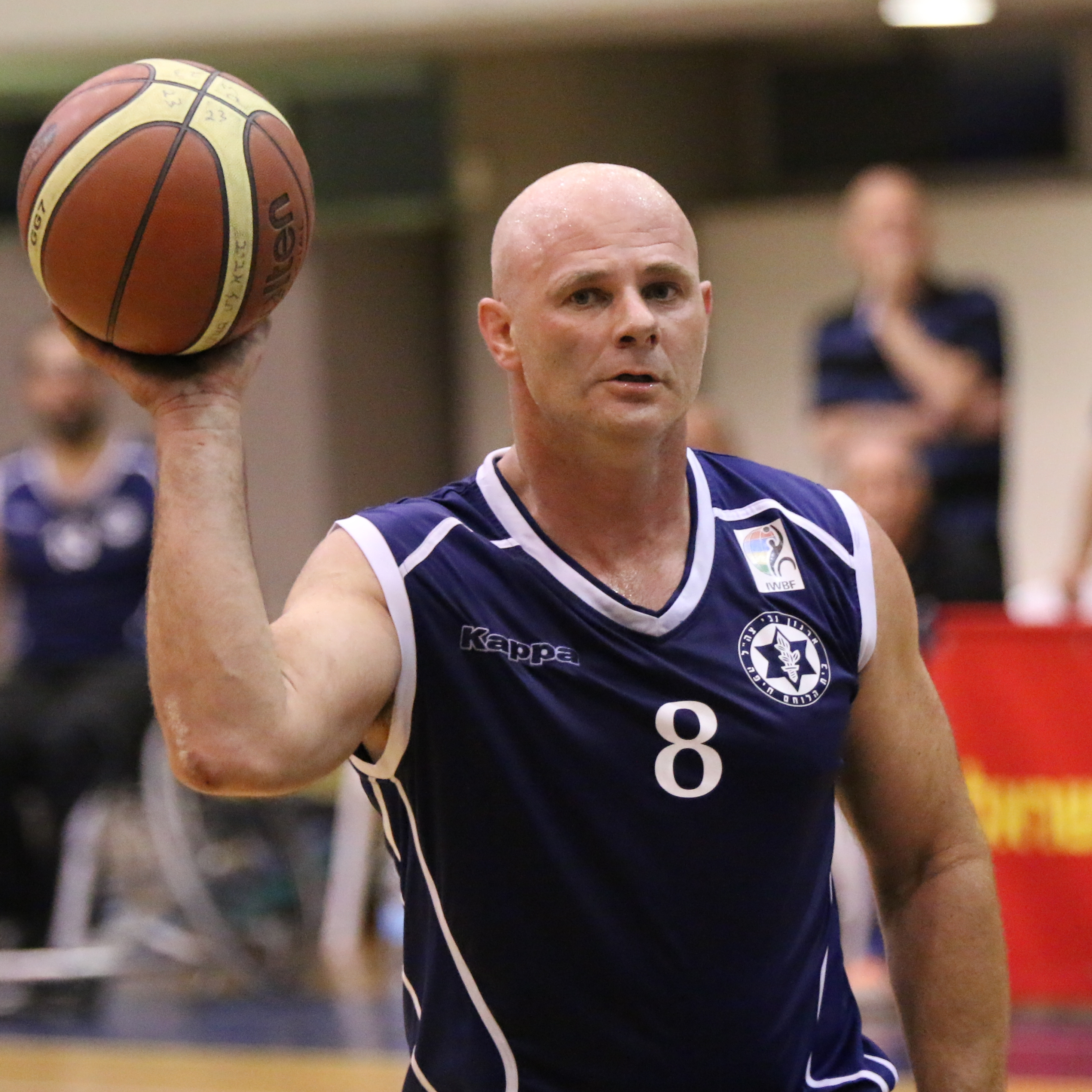 Dotan Meishar